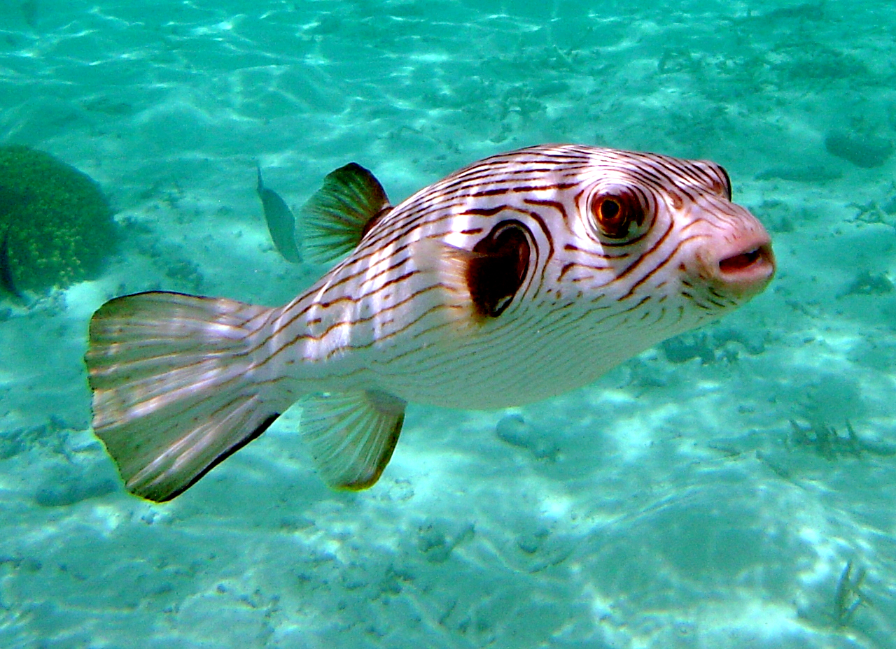 Striped puffer (Arothron manilensis) Image ID: reef0926, NOAA's Coral Kingdom Collection Location: Guam, Mariana Islands